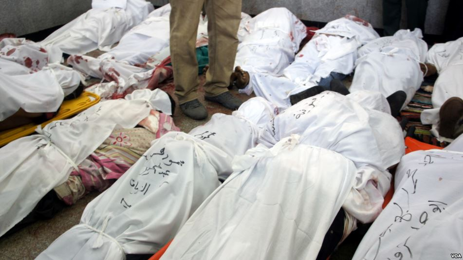 Bodies of Morsi supporters killed in clashes with security forces in Cairo; original description: "Bodies of Morsi supporters killed early Saturday in clashes with security forces are seen in a makeshift morgue in Cairo, July 27, 2013, (Elizabeth Arrott/VOA)." (